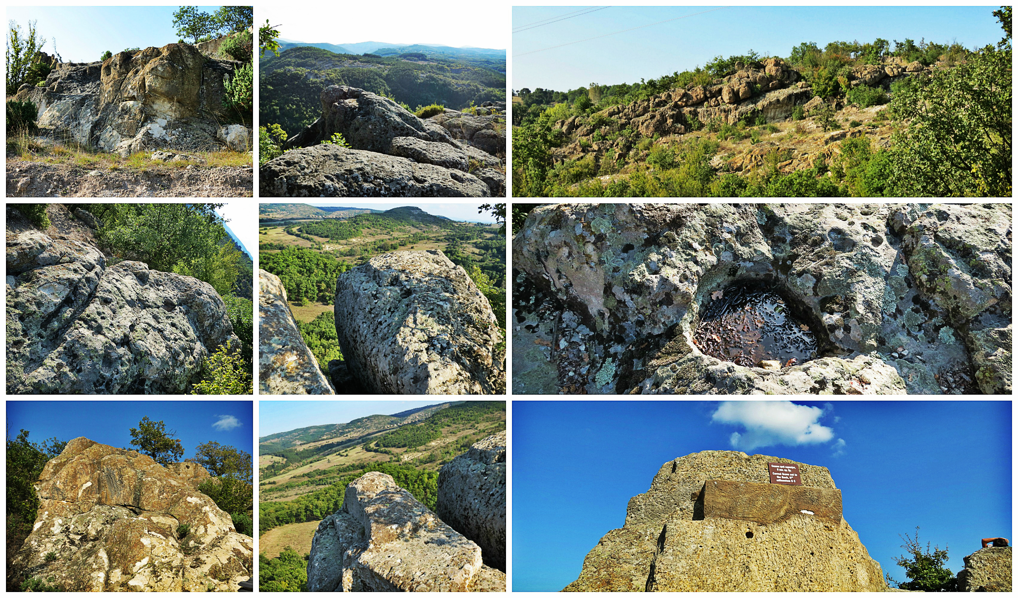 Tatul sanctuary 1 Bulgaria